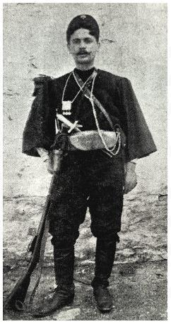 Portrait of greek andart captain Telos Agras